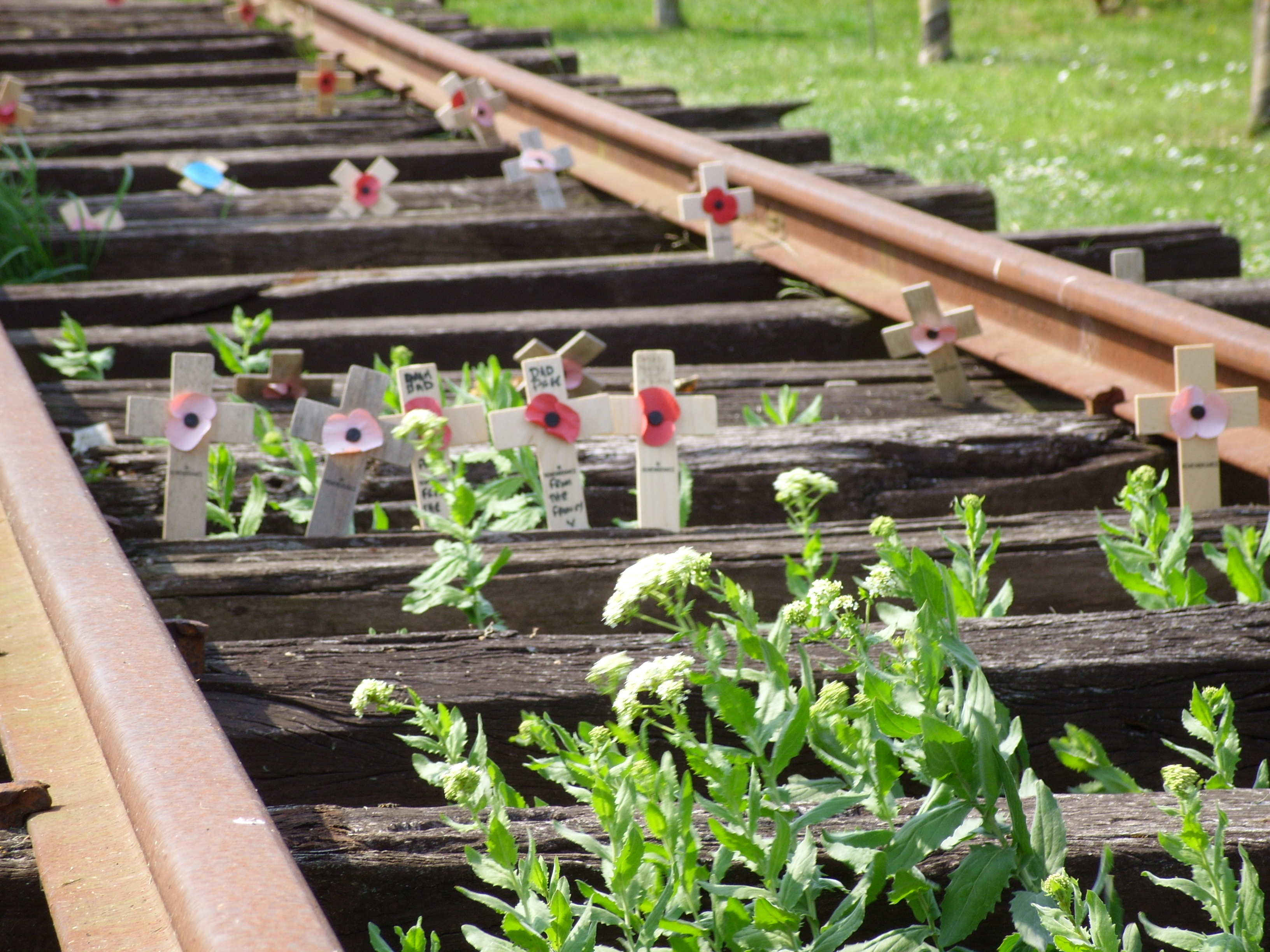 Burma Railway Memorial at the National Memorial Arboretum, Staffordshire